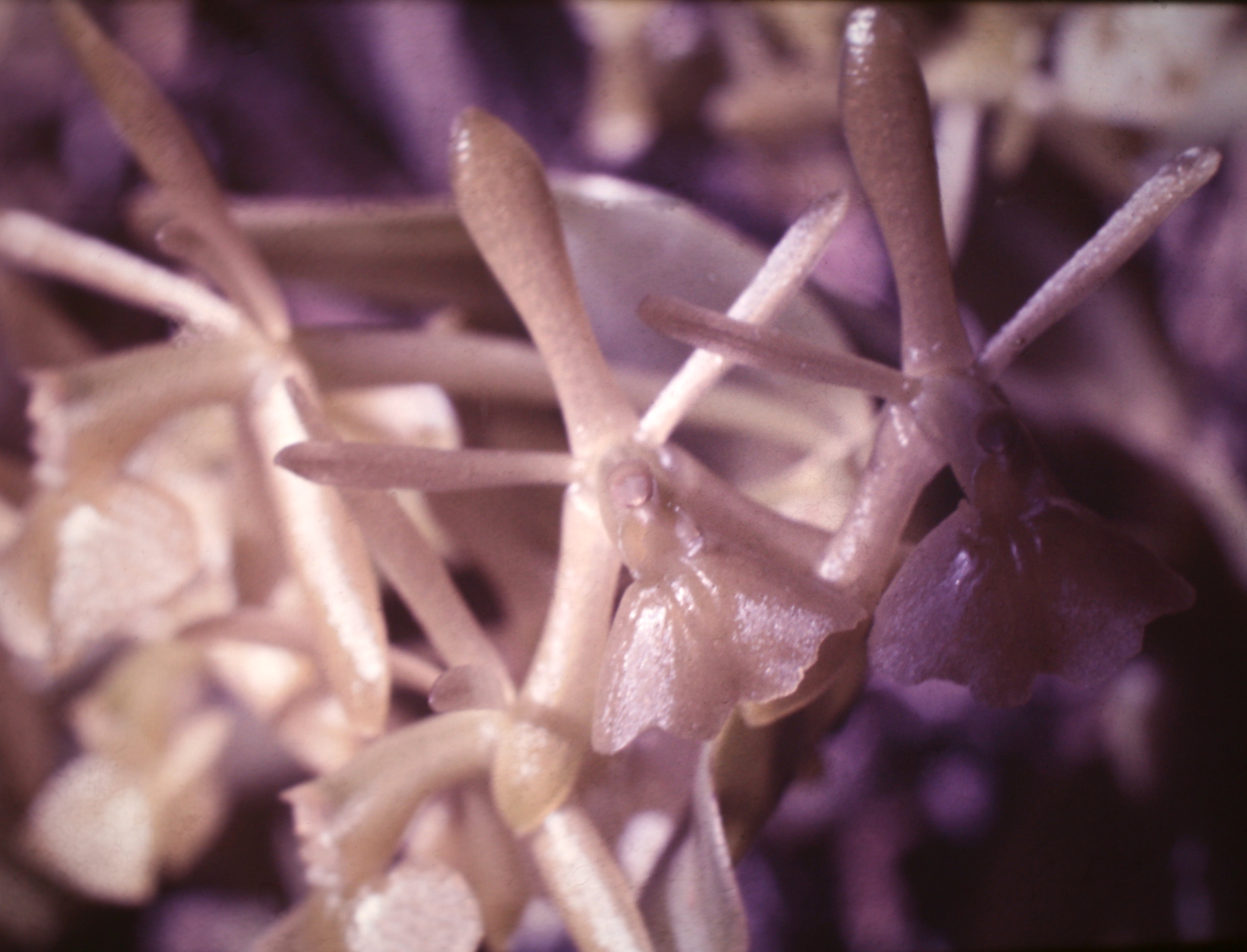 Epidendrum difforme, Suriname. This photo: rather dull color, normally light green